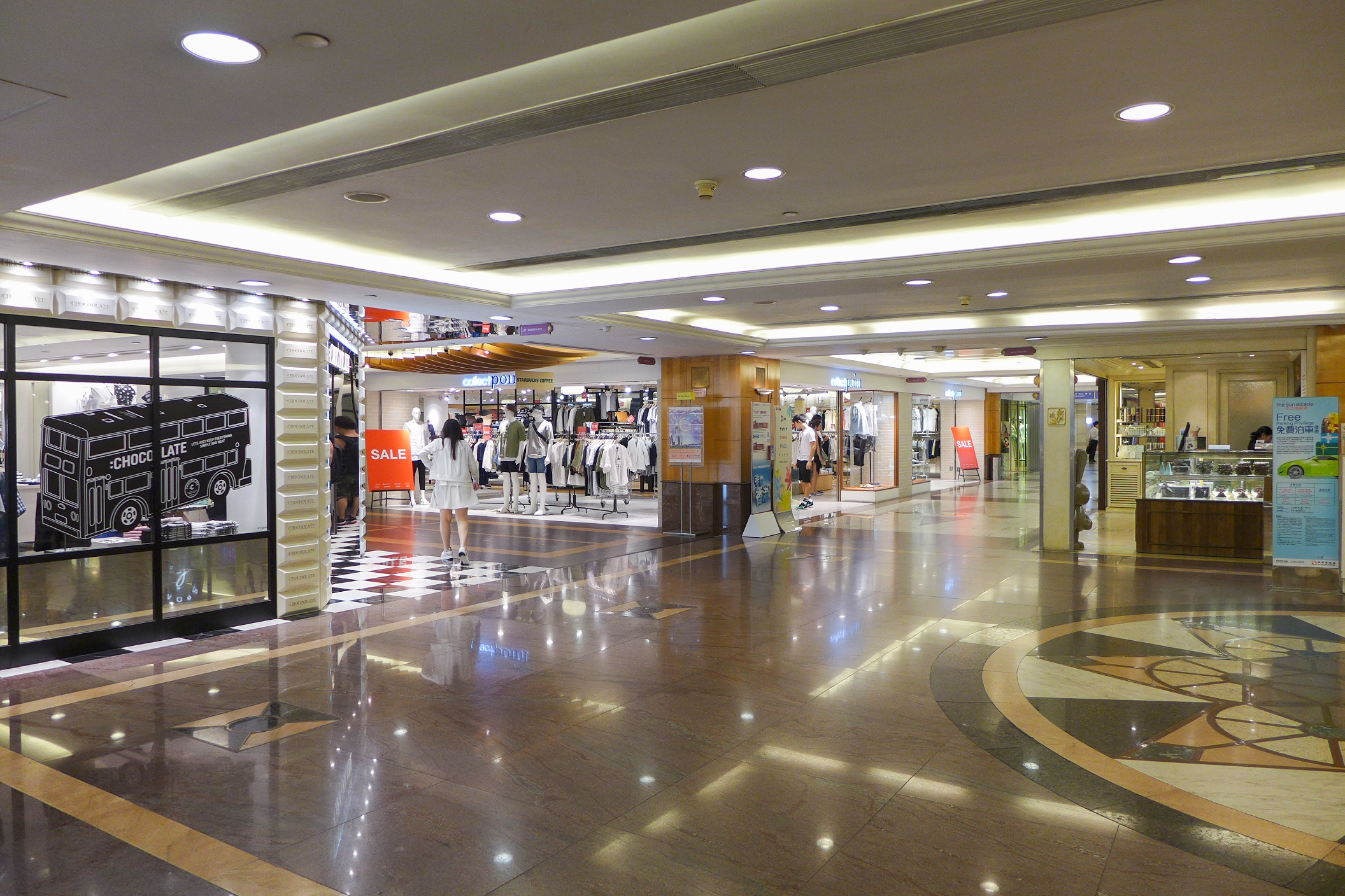 The Sun Arcade